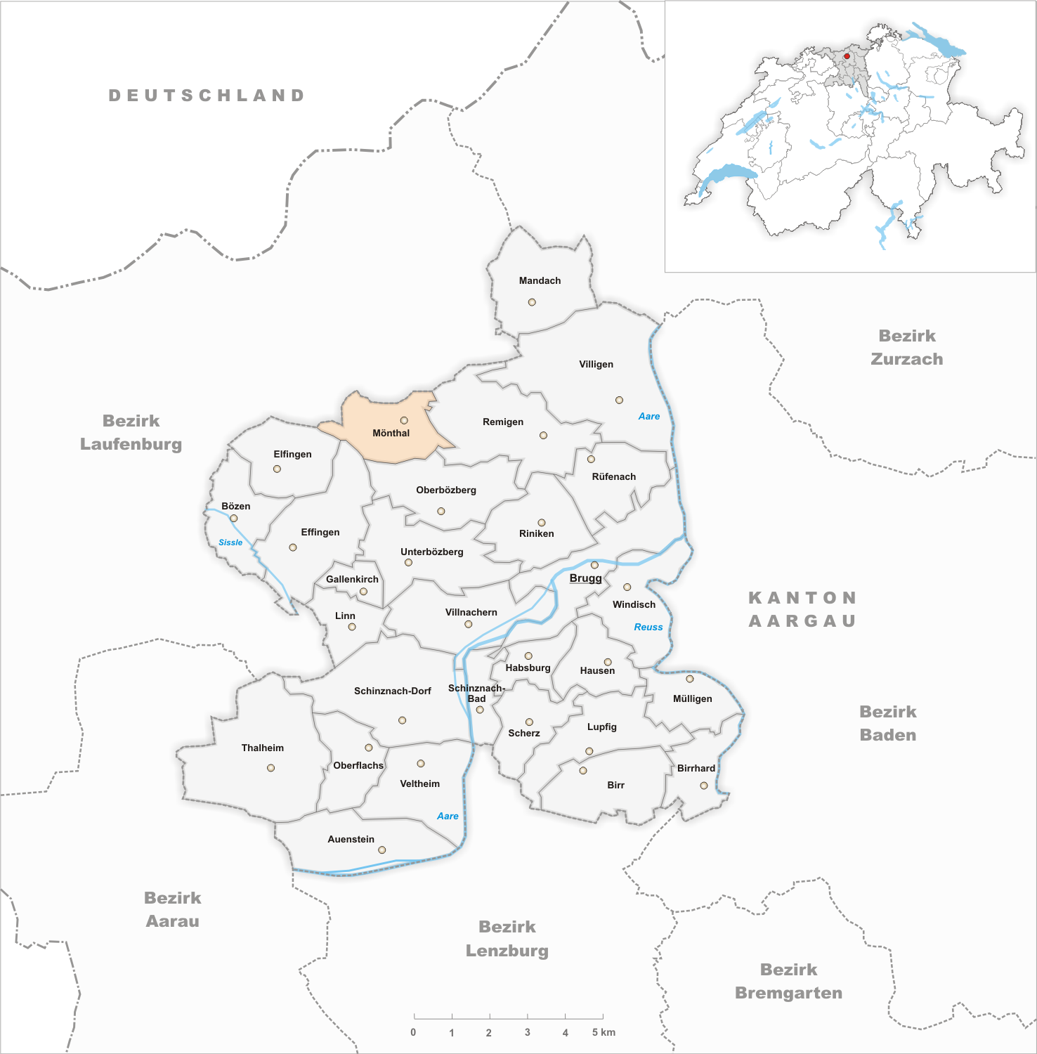 Municipality Mönthal